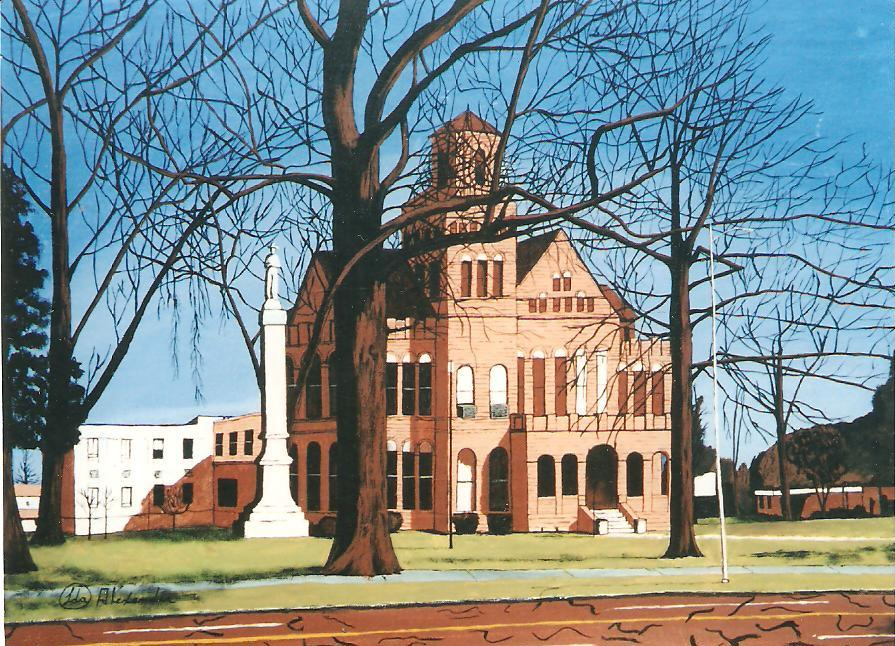 Artist: Larry D. Alexander Source: Larry D. Alexander's Home Files Title: "Greenville Courthouse" Medium: Acrylic 18"x24"